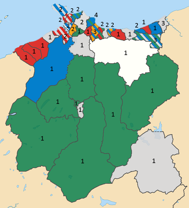 Results of the Conwy County Borough Council election, May 2012, indicating numbers of councillors per ward and their party affiliations Colours: Conservative Plaid Cymru Labour Liberal Democrat Independent No party affiliation declared Striped wards have mixed representation.